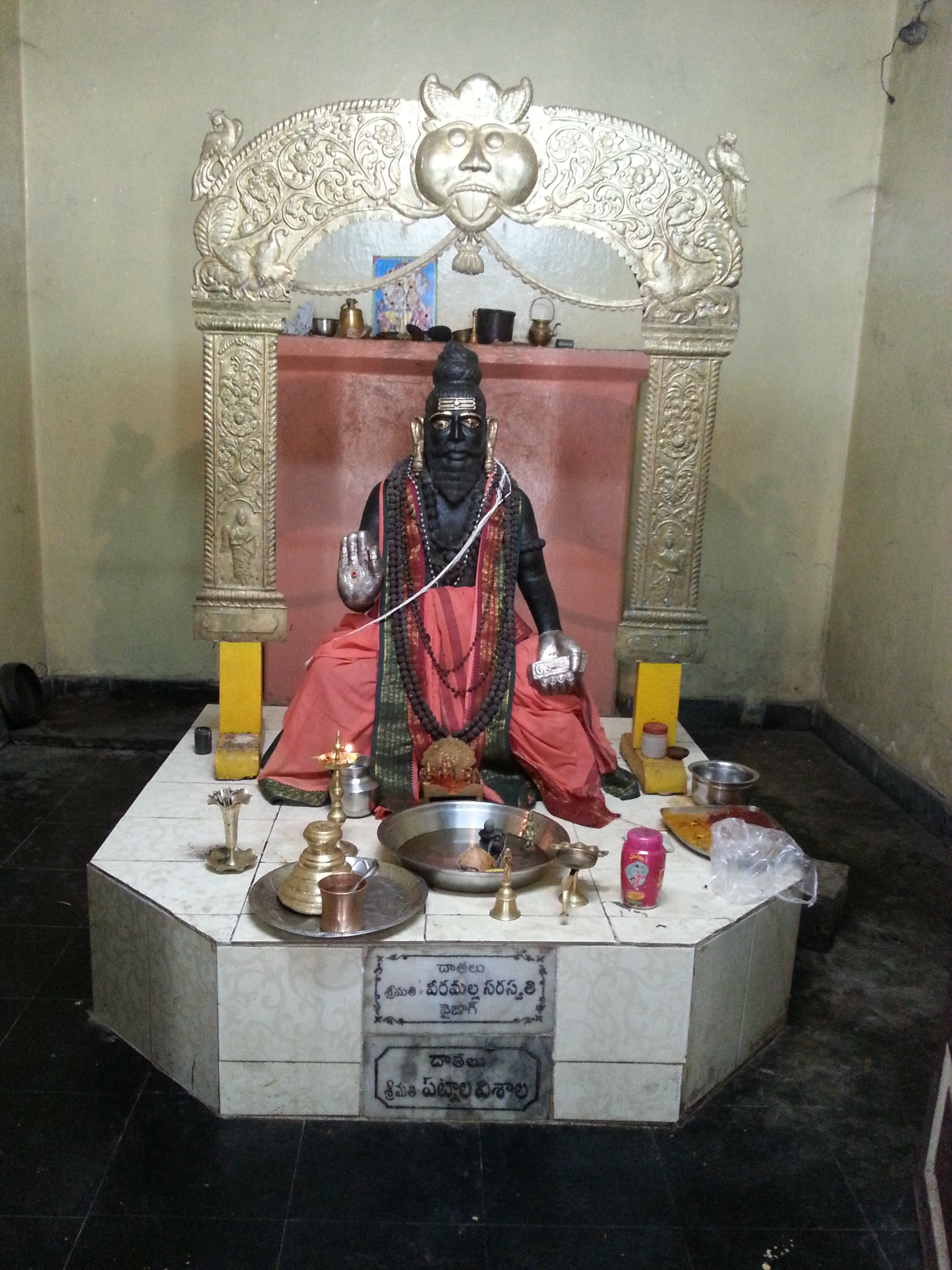 Diety of Sri Sri Sri Potuluri Veerabrahmam garu, Vizianagaram